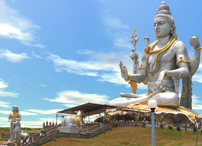 Statue of god siva ,murudeshwaram